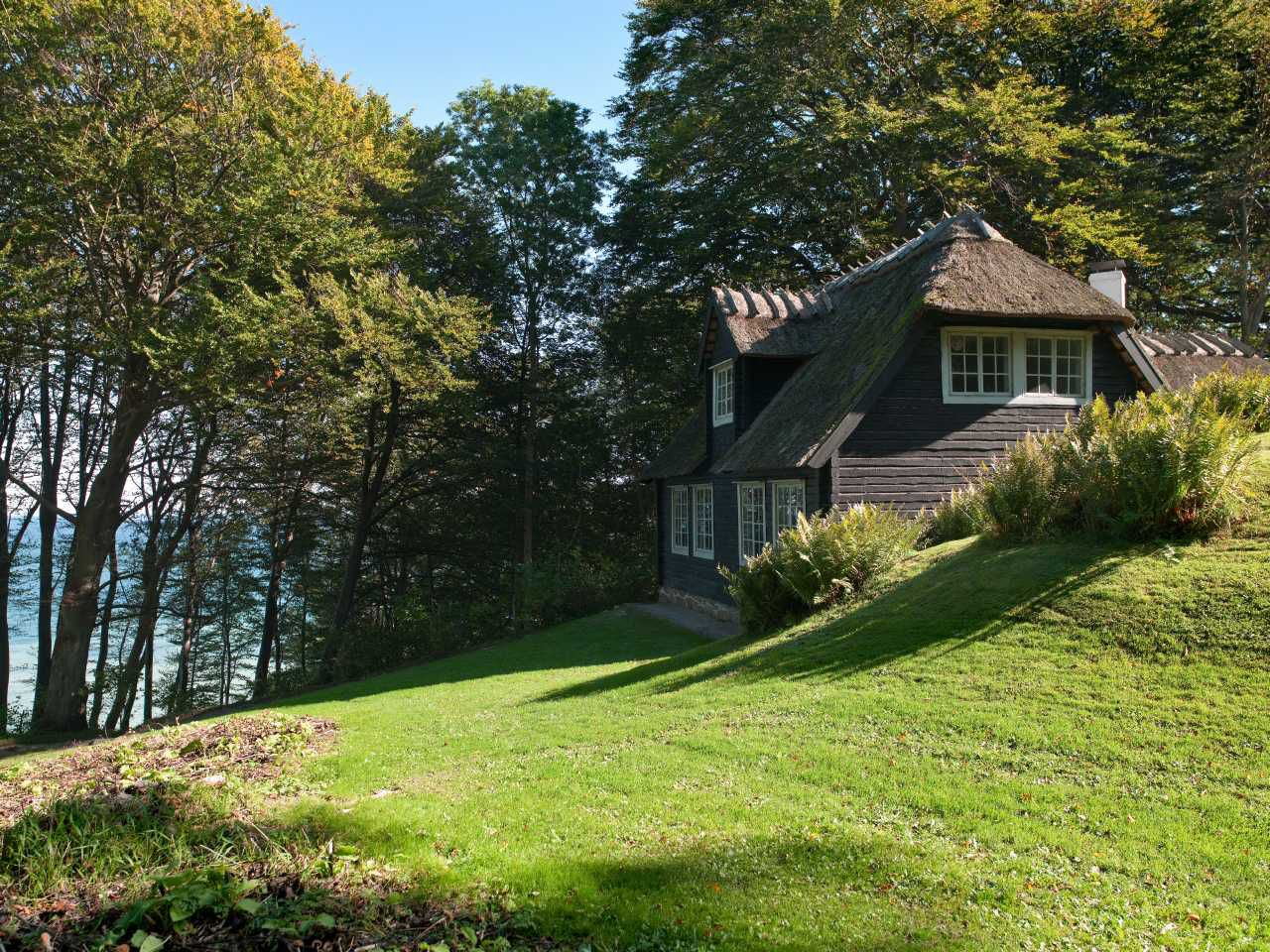 The Norwegian House in Liselund Park on Møn, Denmark